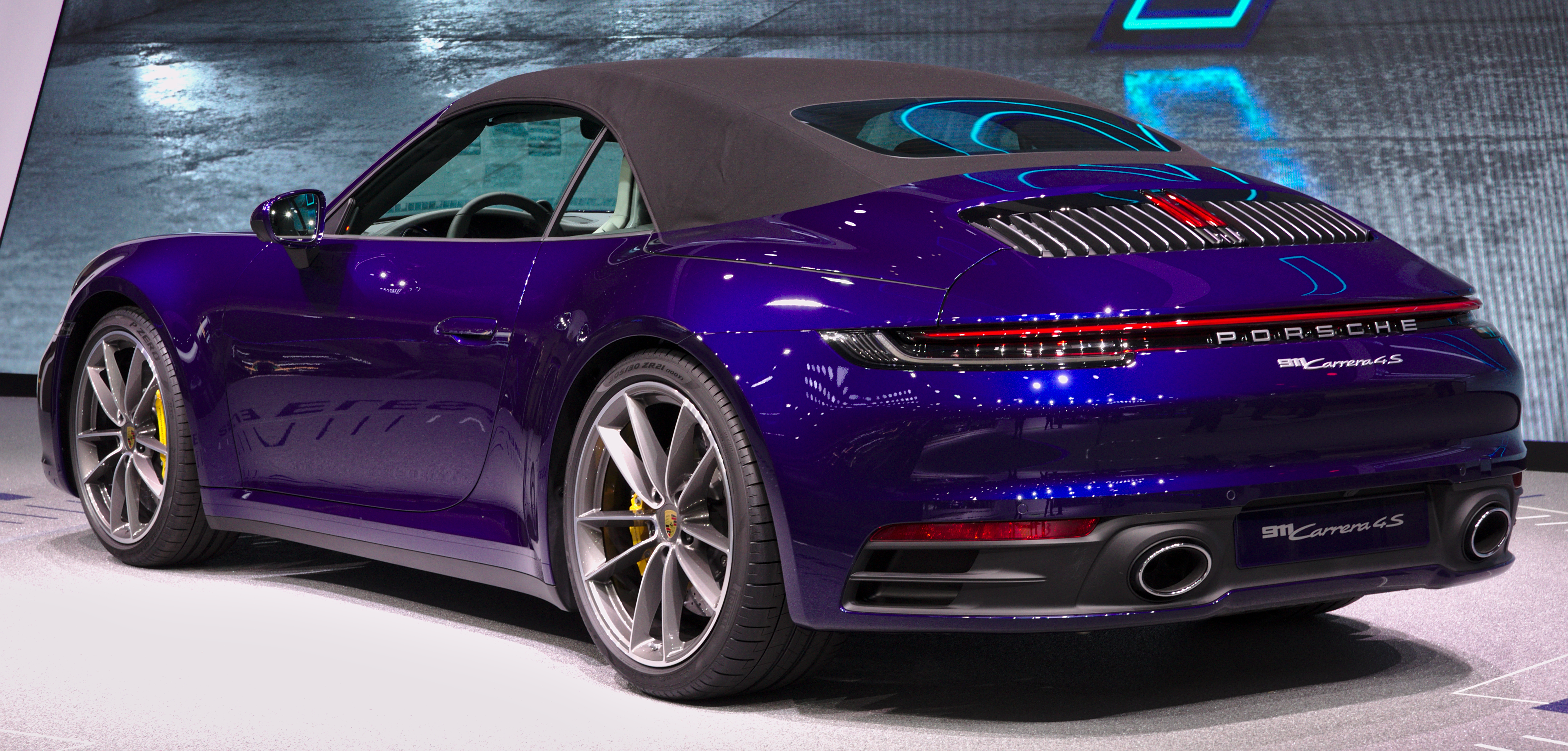 Porsche 992 Cabrio Carrera 4S at Geneva Motor Show 2019